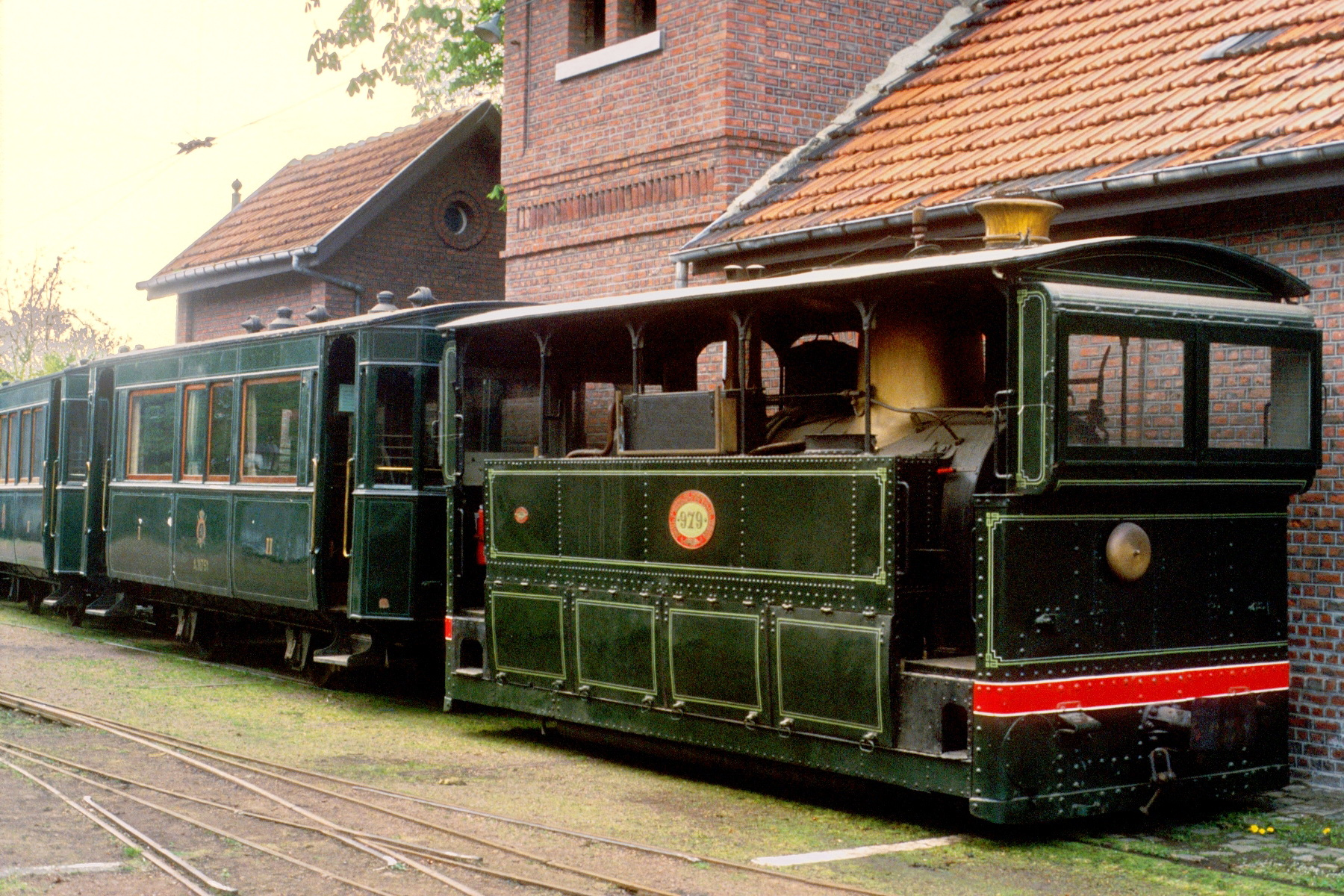 SNCV vicinal railways steam locomotive at tram museum in Schepdaal, Belgium.